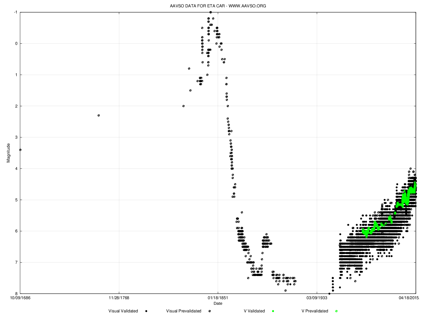 The lightcurve of Eta Carinae from some of the earliest observations to the current day.